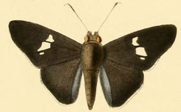 Plate: Hesperia II Hesperia cincia. Figs. 12, 13. Accepted as Neoxeniades cincia (Hewitson, 1867).